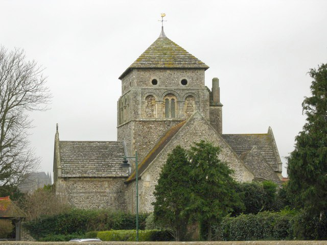 St Nicholas Church, Old Shoreham